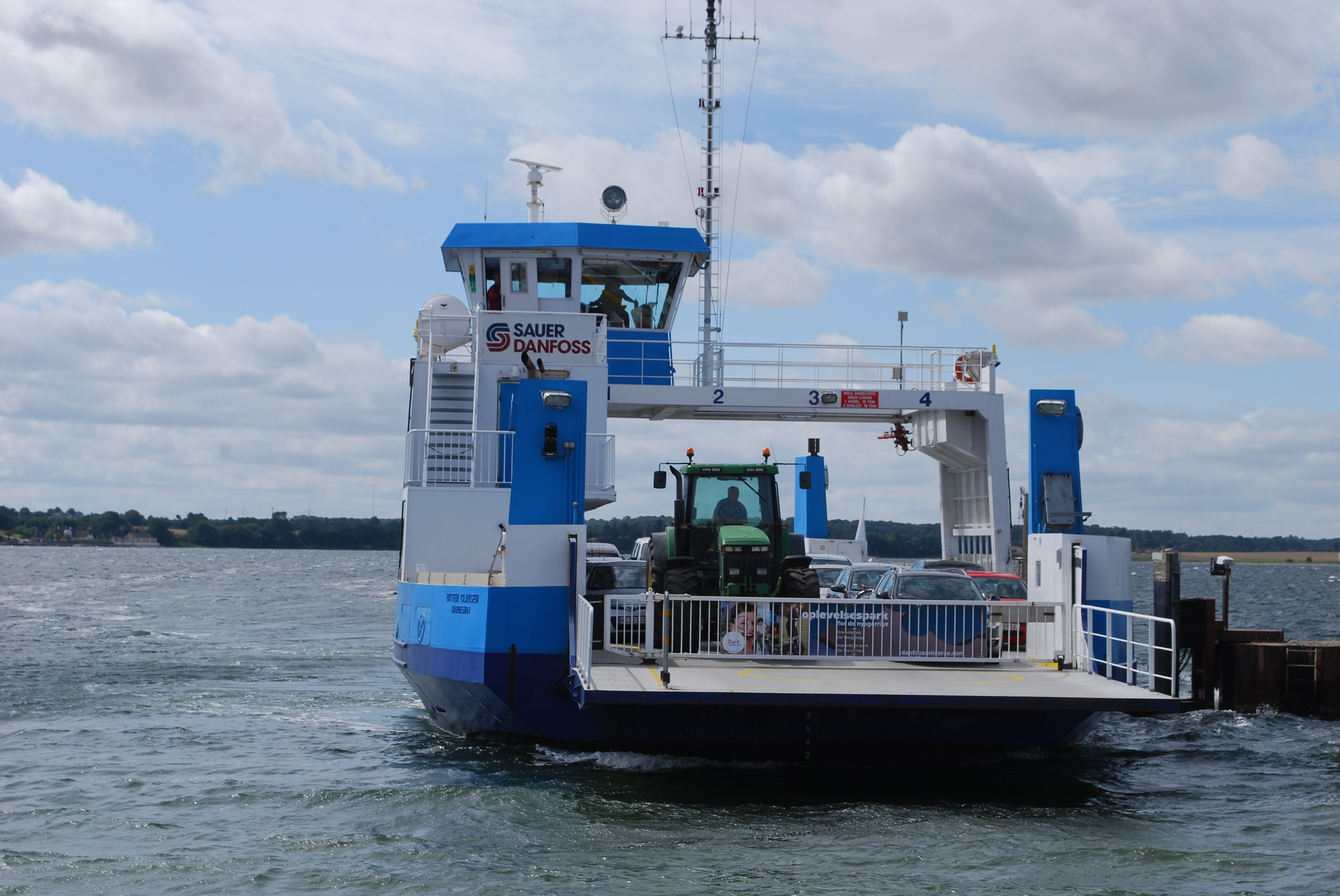 M/F Bitten Clausen - The ferrow between Hardeshøj and Ballebro - Denmark